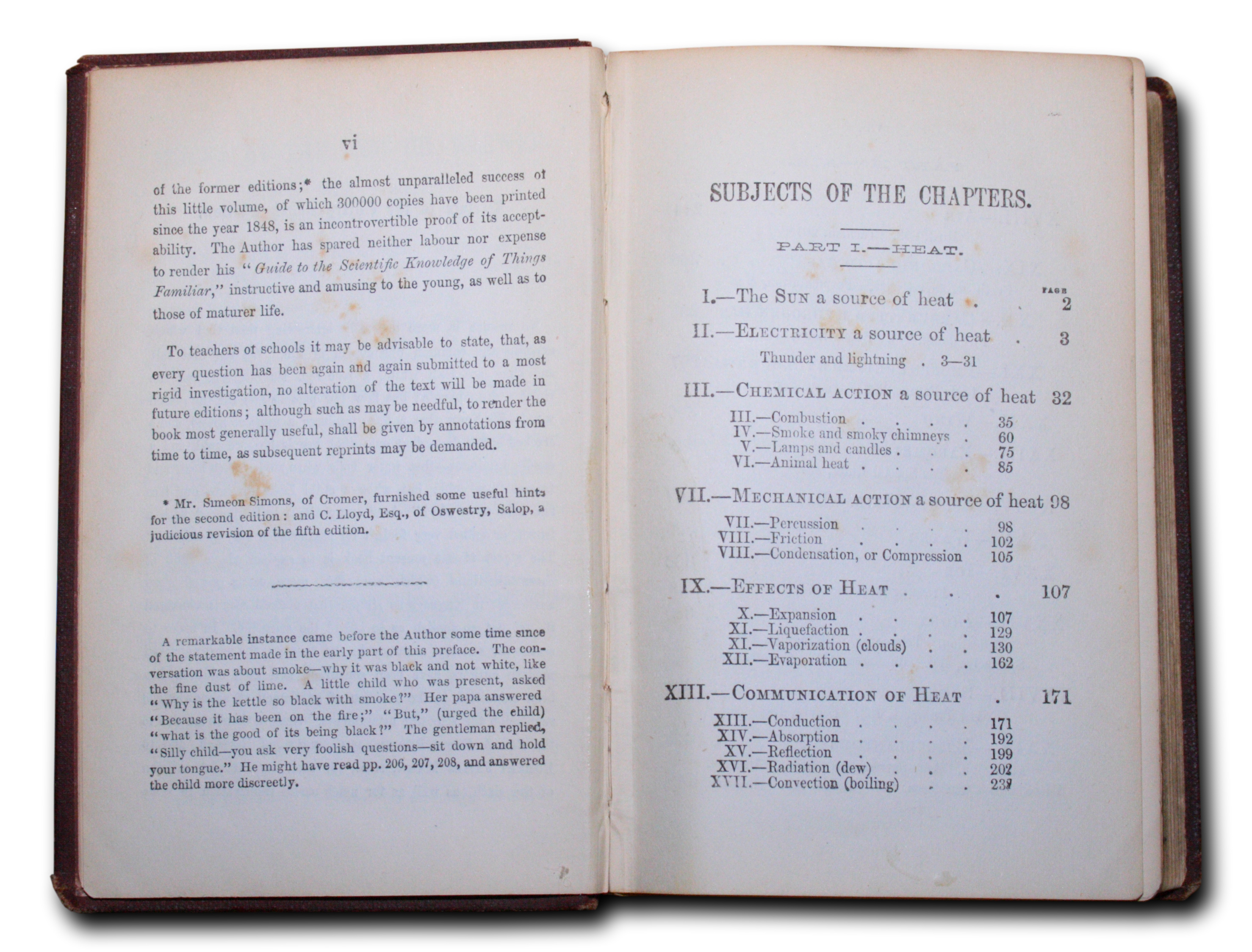 First contents page of A Guide to the Scientific Knowledge of Things Familiar by Ebenezer Cobham Brewer, also known as Dr Brewer's Guide to Science. This is the 38th edition published in 1880.